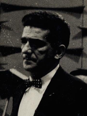 Portrait of Jacob Pick Bittencourt cropped from an image by Fundo Correio da Manhã available at Arquivo Nacional (Brazil)